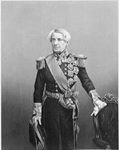 From a photograph by Kilburn. This image has been scanned from a photograph in the possession of the Lyons family. Originally uploaded by User talk:Lyonsn. Re-uploaded due to vandalism by another user.